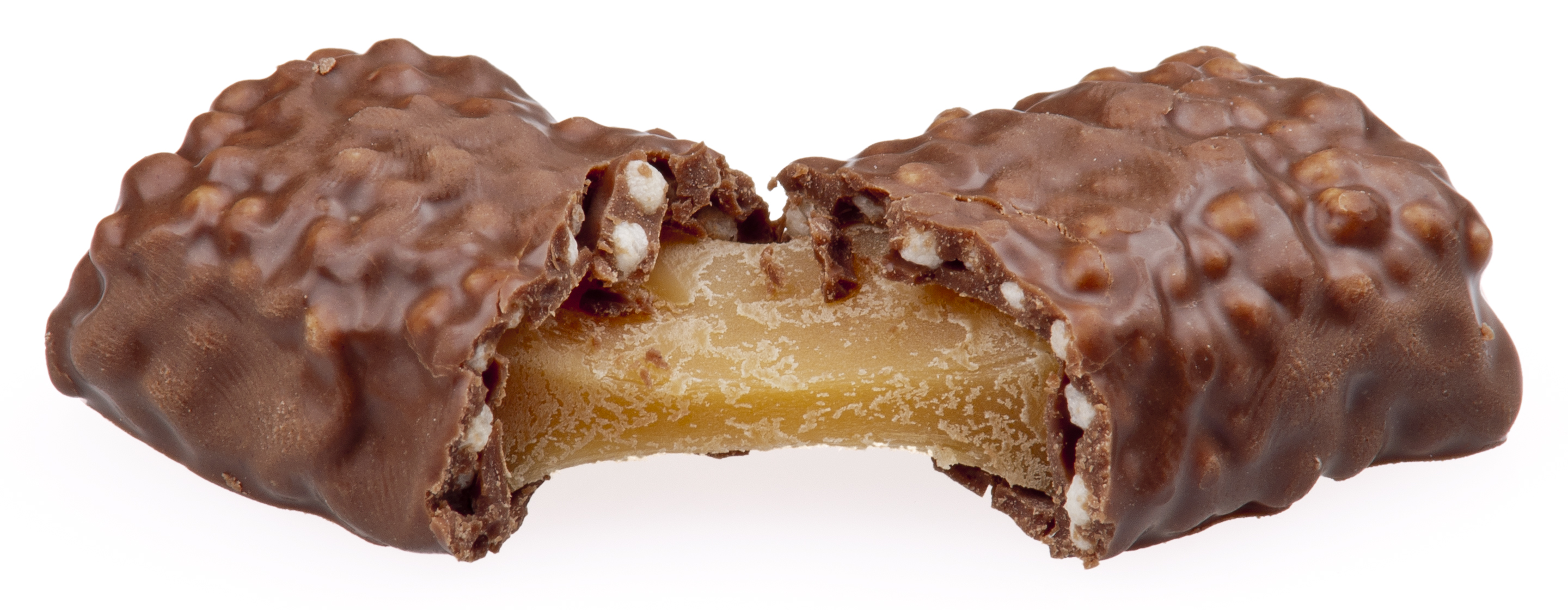 A 100 Grand candy bar, broken in half. A milk chocolate bar with crisped rice and caramel. Each standard-sized package has two bars inside.